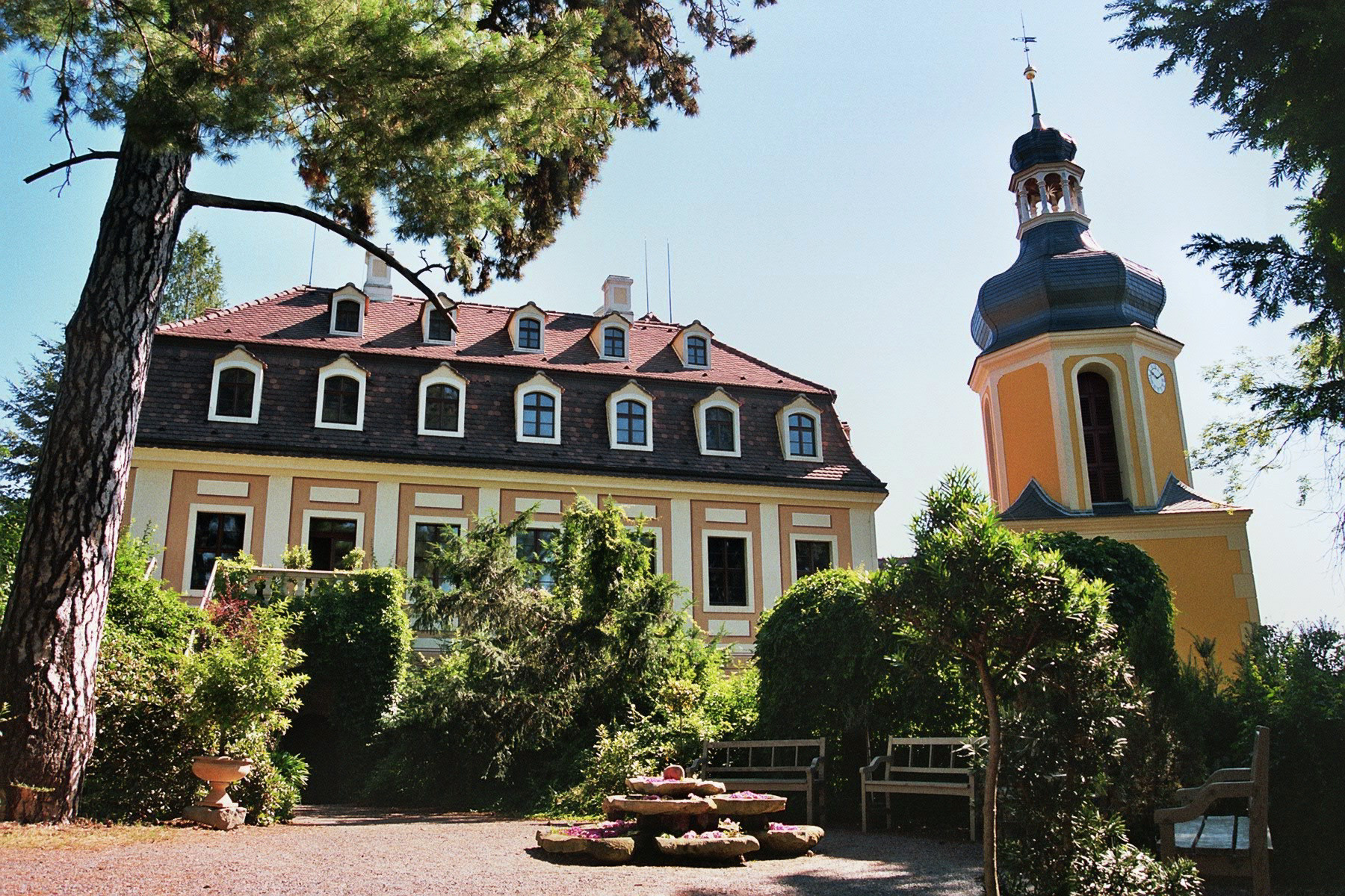 This image shows Zuschendorf castle in Pirna in Saxony, Germany.